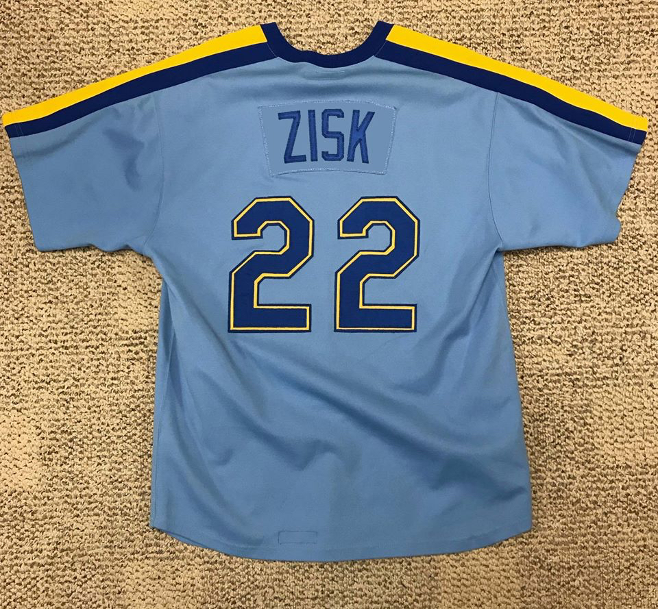 1983 Seattle Mariners #22 Richie Zisk road jersey lettered and photographed by William F. Henderson who may be contacted through his website at thedream.shop